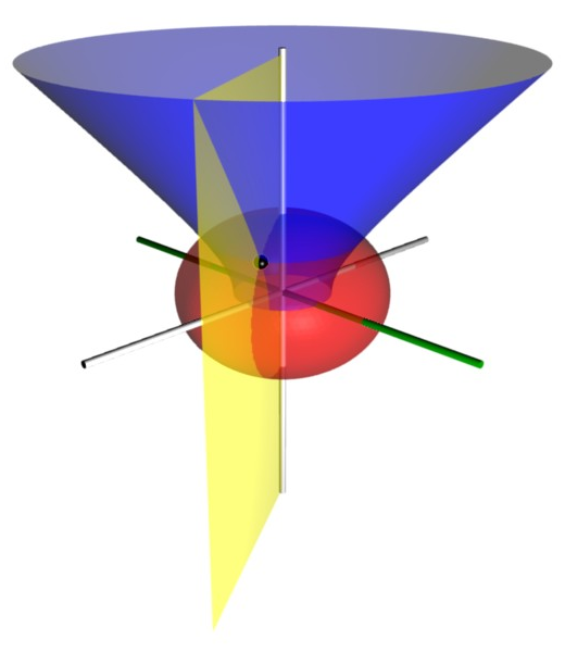 Version of Image:Oblate_spheroidal_coordinates.png that is specific for the (μ, ν, φ) version of those coordinates.